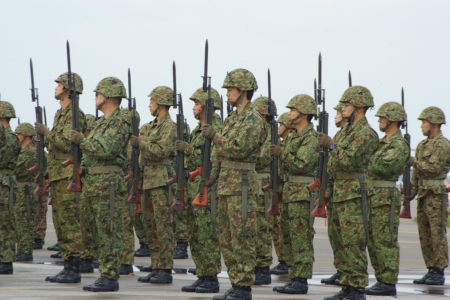 Present Arms fixing bayonet by JGSDF Force.